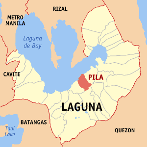 Locator map of Pila in Laguna, Philippines.